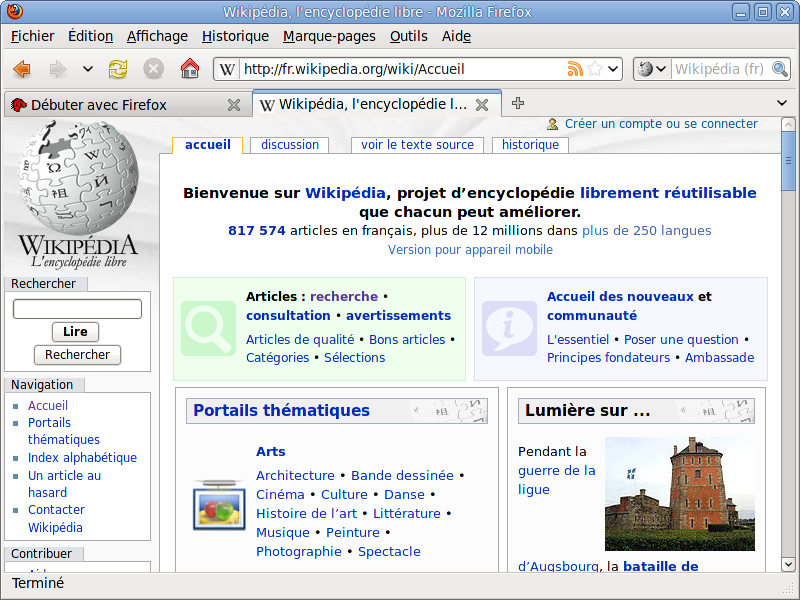 Screenshot of Mozilla Firefox 3.5 in French on Gnu/Linux (Gnome).